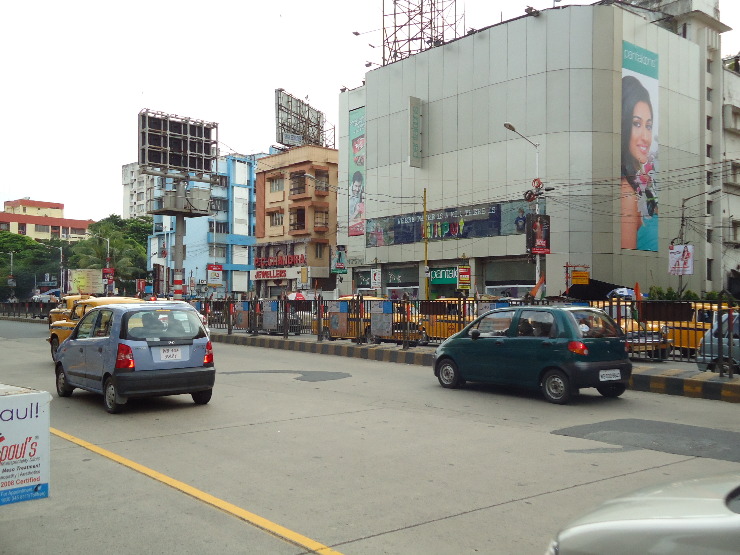 Pantaloons retail store, Gariahat